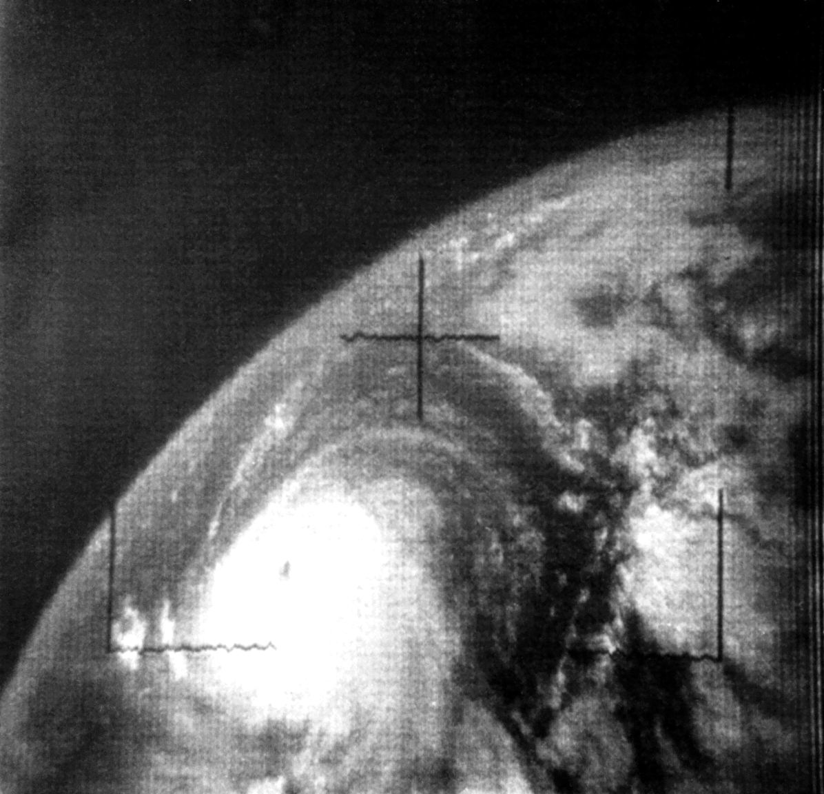 This image shows Hurricane Betsy in the Gulf of Mexico in September of 1965 as taken by the TIROS VIII weather satellite